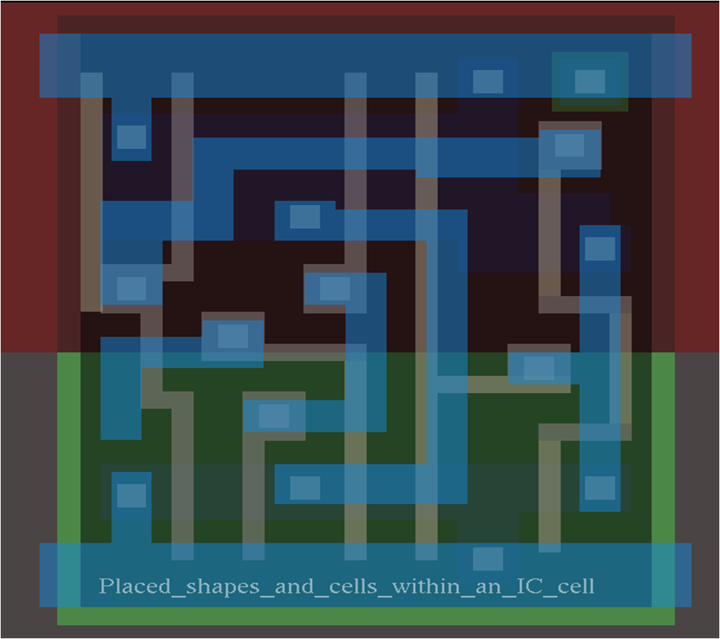 Sample cell image of an integrated circuit.